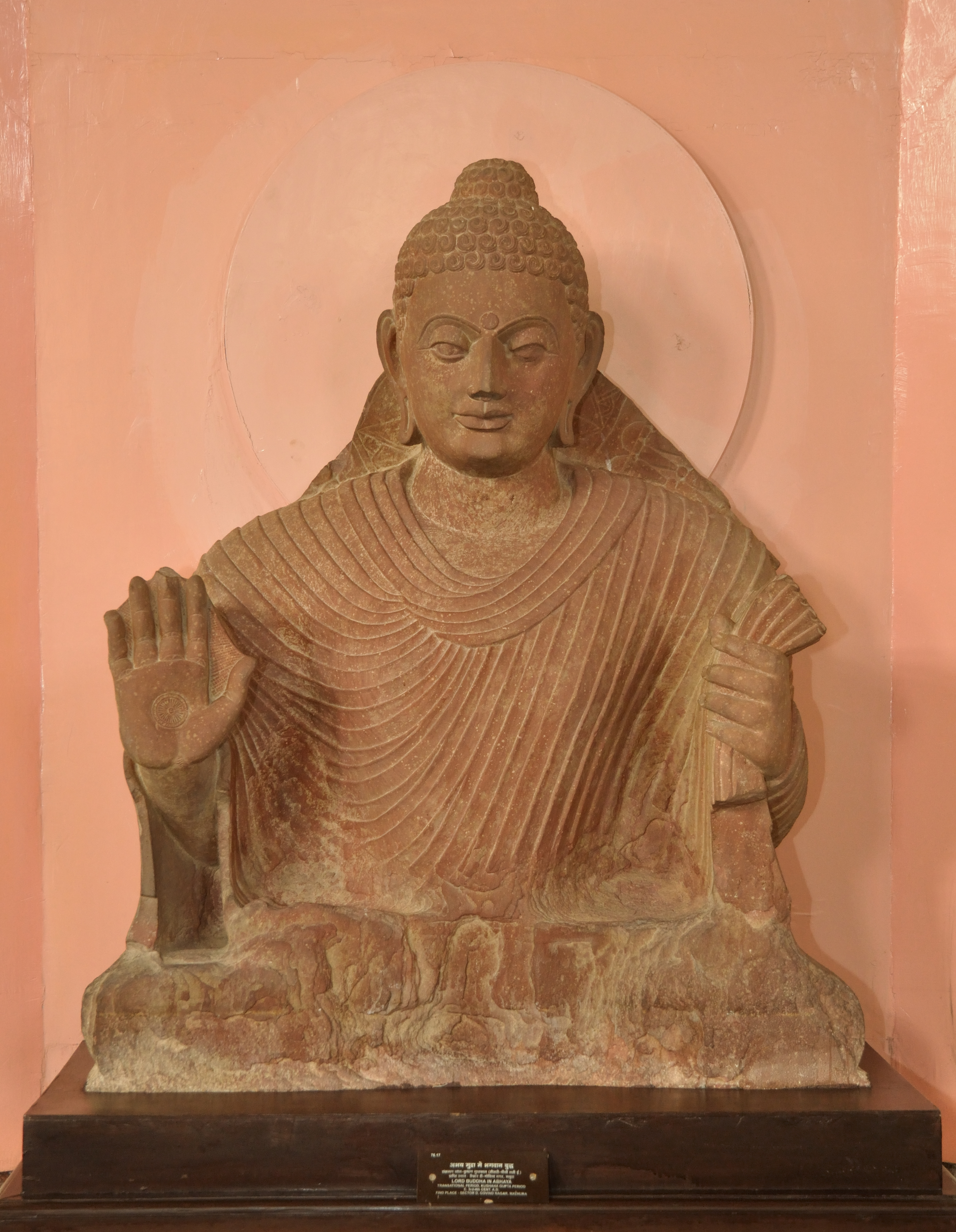 This artefact resides at the Government Museum, (hi: Rashtriya Sangrahalaya) formerly The Curzon Museum of Archaeology, Museum Road or Murari Lal Rajpal road, Dampier Nagar, Mathura, Uttar Pradesh, India. This museum is administrating by the State Government of Uttar Pradesh of India.